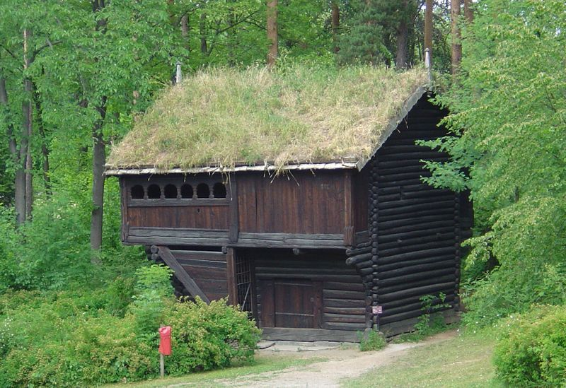 Wooden House in -National Heritage Museum in Oslo, Norway. taken by טל כהן.